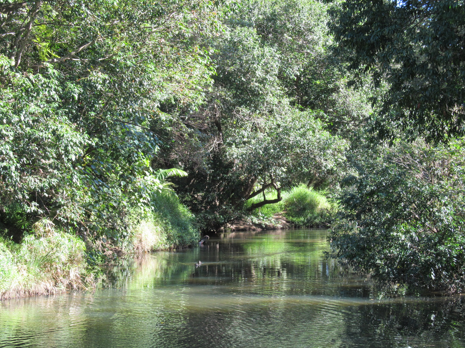 Kedron Brook looking east from near the Hills District Community Centre in Arana Hills, Queensland.